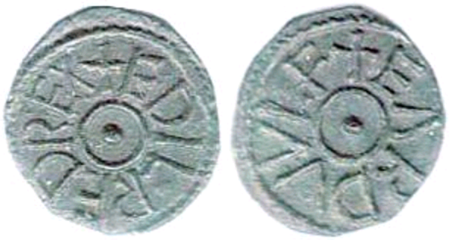 Coin of Æthelred II of Northumbria (mid 9th century)